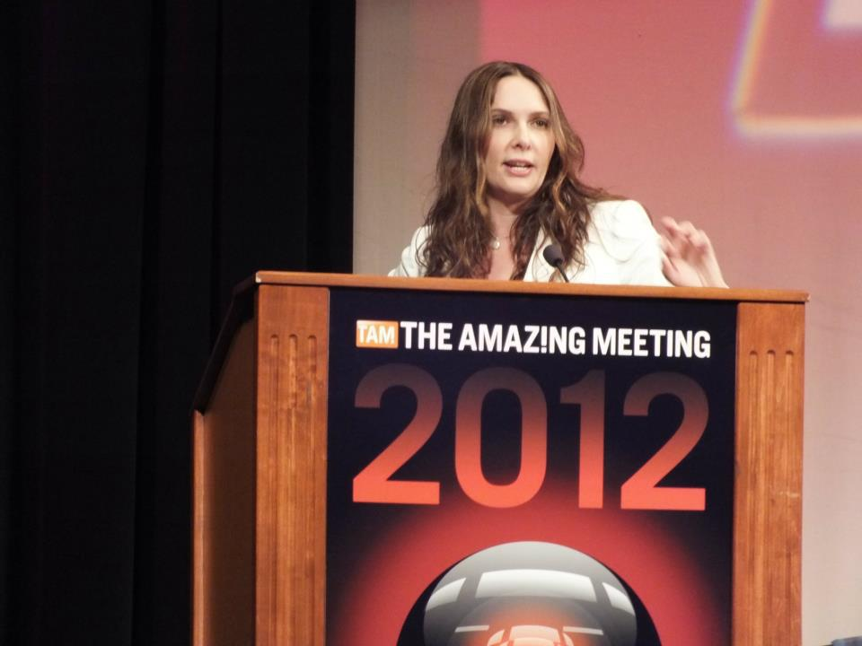 Karen Stollznow presenting at The Amazing Meeting 2012 conference in Las Vegas, NV.